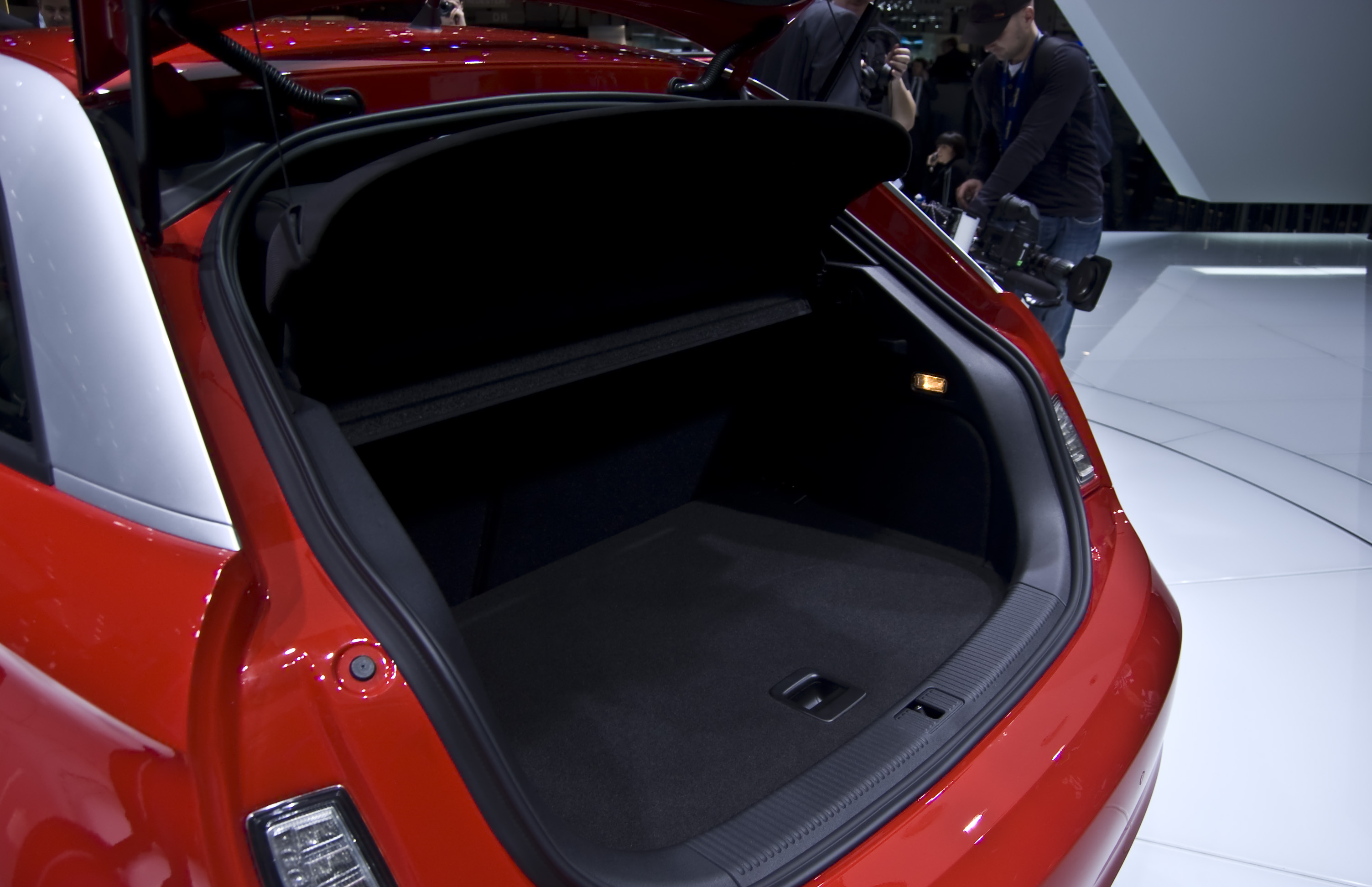 Audi A1 Boot